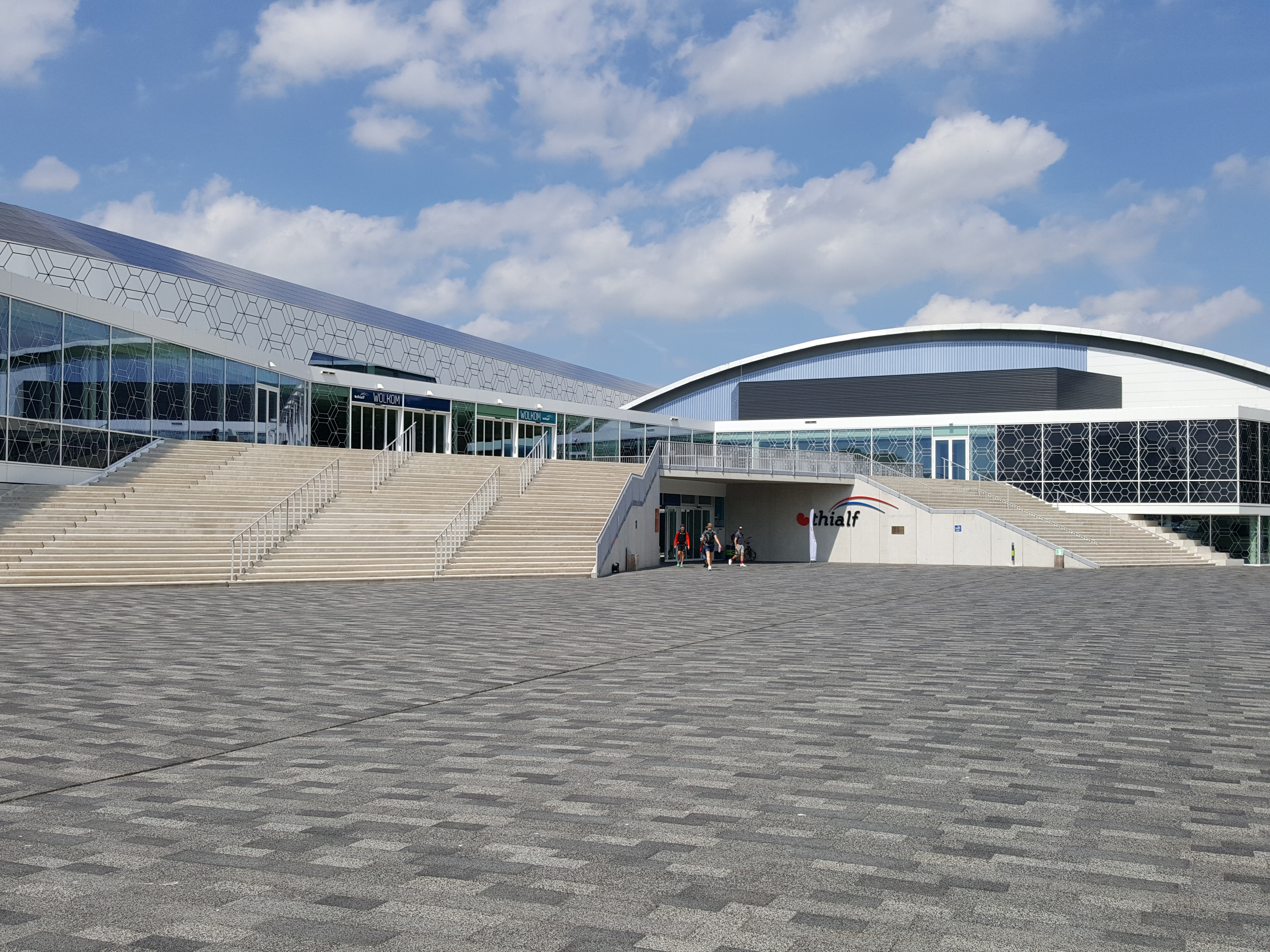 Thialf ice stadium, Heerenveen, June 2019